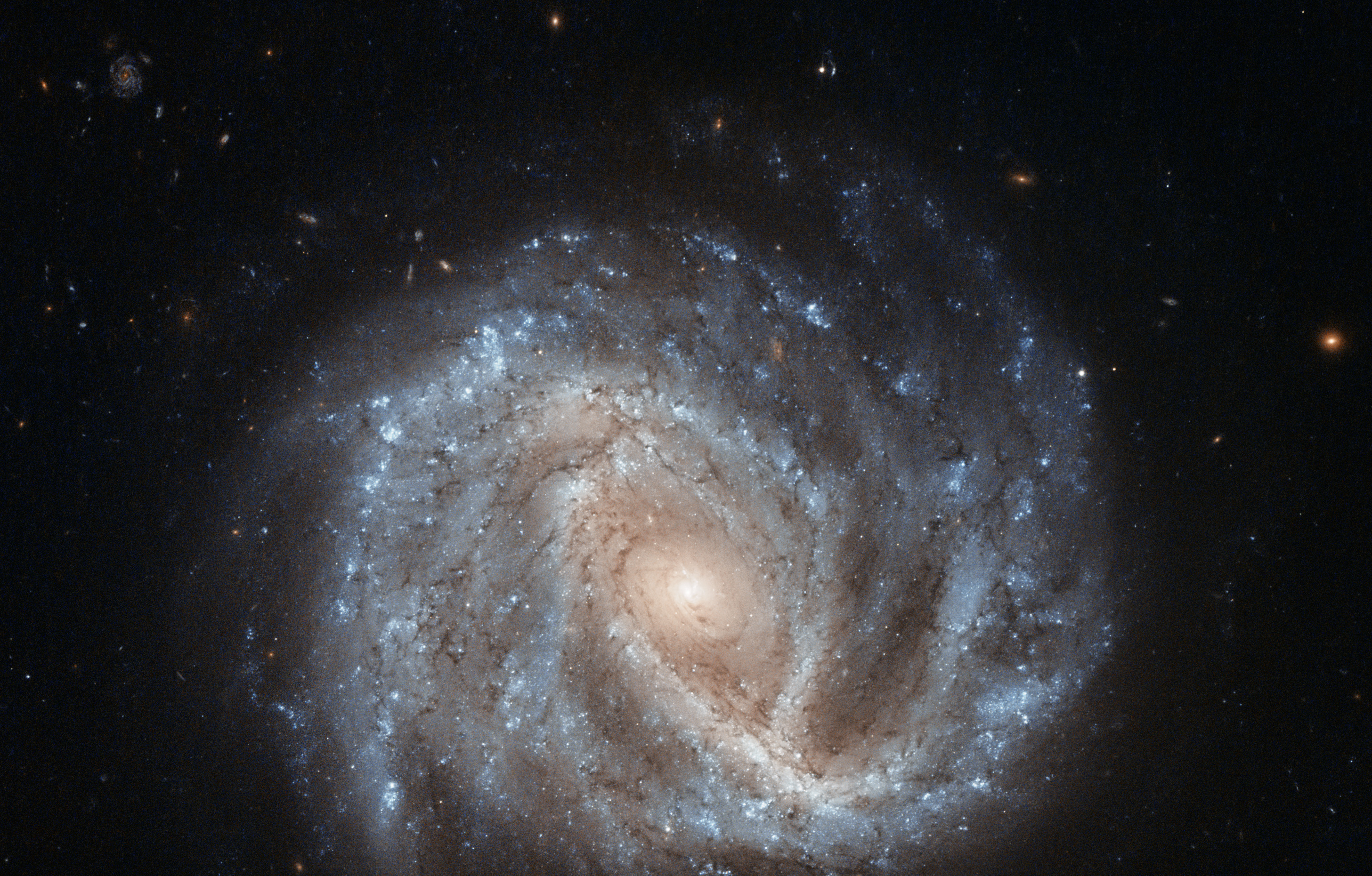 This bright spiral galaxy is known as NGC 2441, located in the northern constellation of Camelopardalis (The Giraffe). However, NGC 2441 is not the only subject of this new Hubble image; the galaxy contains an intriguing supernova named SN1995E, visible as a small dot at the approximate centre of this image. For a labelled view, see potw1425b. Supernova SN1995E, discovered in 1995 as its name suggests is a type Ia supernova. This kind of supernova is found in binary systems, where one star — a white dwarf — drags matter from its orbiting companion until it becomes unstable and explodes violently. White dwarf stars all become unbalanced once they reach the same mass, meaning that they all form supernovae with the same intrinsic brightness. Because of this, they are used as standard candles to measure distances in the Universe. But SN1995E may be useful in another way. More recent observations of this supernova have suggested that it may display a phenomenon known as a light echo, where light is scattered and deflected by dust along our line of sight, making it appear to “echo” outwards from the source. In 2006, Hubble observed SN1995E to be fading in a way that suggested its light was being scattered by a surrounding spherical shell of dust. These echoes can be used to probe both the environments around cosmic objects like supernovae, and the characteristics of their progenitor stars. If SN1995E does indeed have a light echo, it would belong to a very elite club; only two other type Ia supernovae have been found to display light echoes (SN1991T and SN1998bu). NGC 2441 was first seen by Wilhelm Tempel in 1882, a German astronomer with a keen eye for comets. In total, Tempel observed and documented some 21 comets, several of which were named after him. A version of this image was entered into the Hubble’s Hidden Treasures image processing competition by contestant Nick Rose.